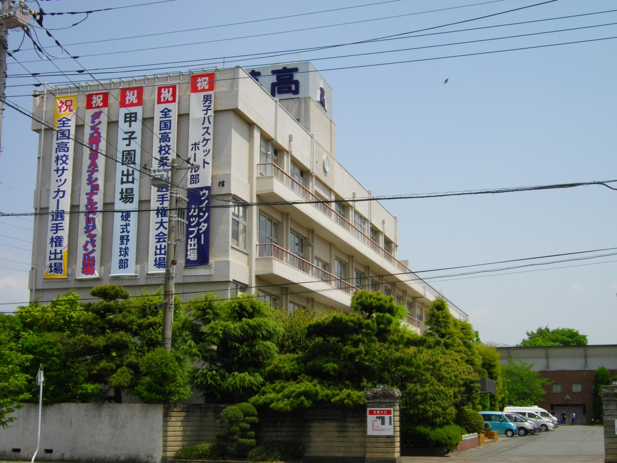 Maebashi Ikuei High School